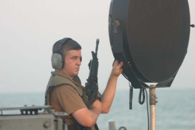 Original caption: Sending our message "Loudly" with the LRAD. Image taken on: USS Typhoon, stationed at Naval Amphibious Base Little Creek.